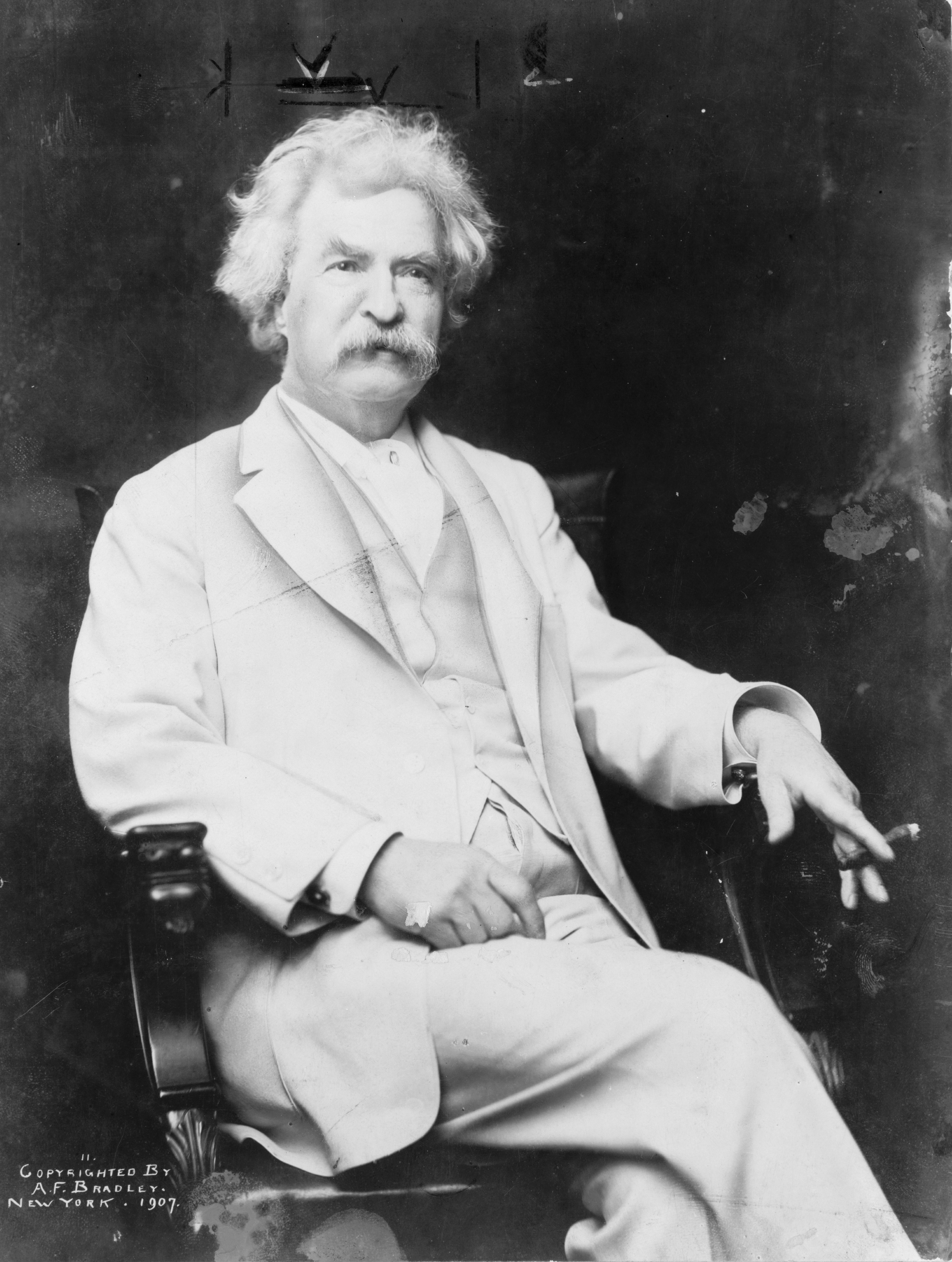 Mark Twain, three-quarter length portrait, seated, facing slightly right, with cigar in hand.